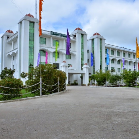 DPS Barra